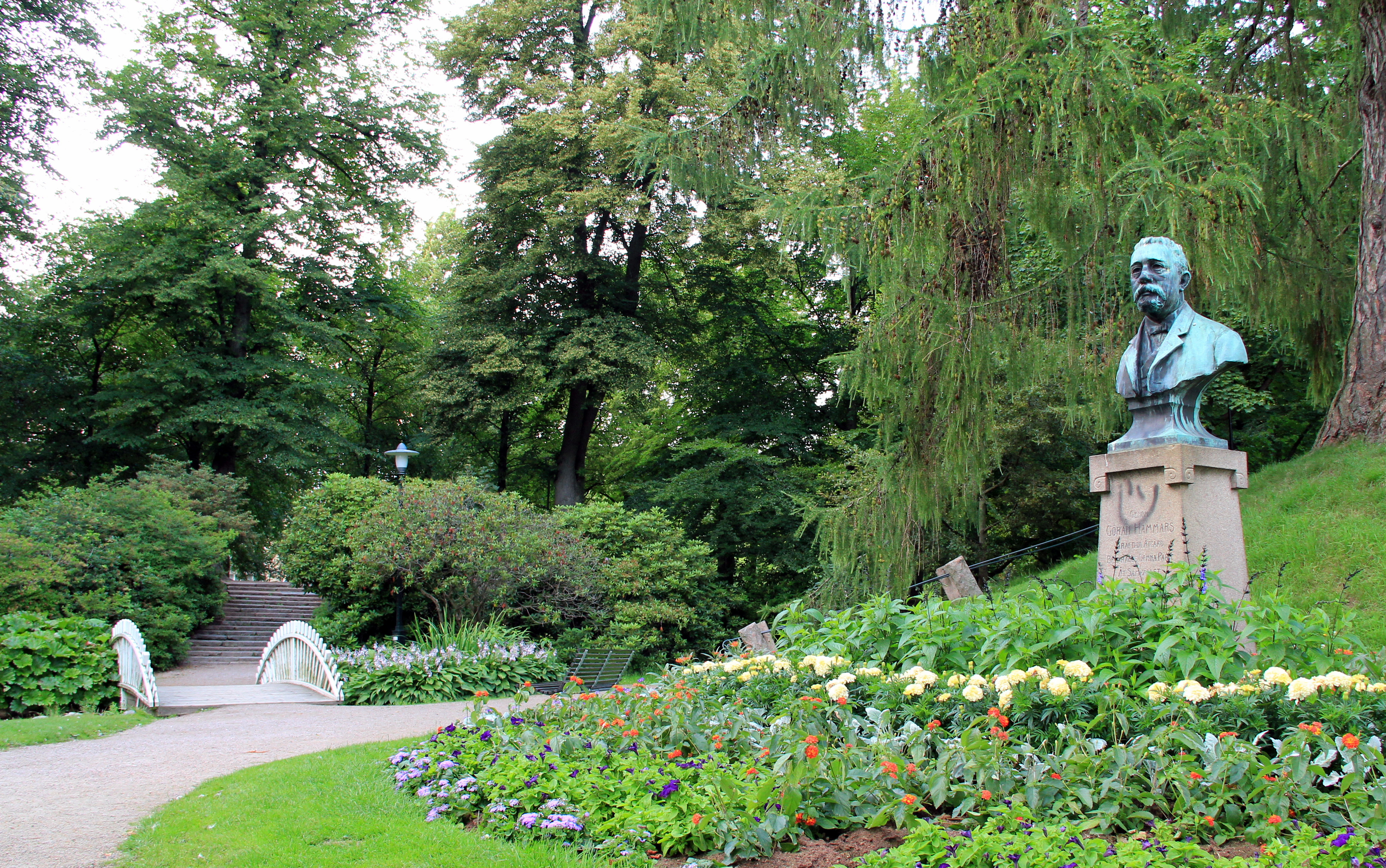 Bust of Swedish polititian Gøran Hammer in Halmstad.